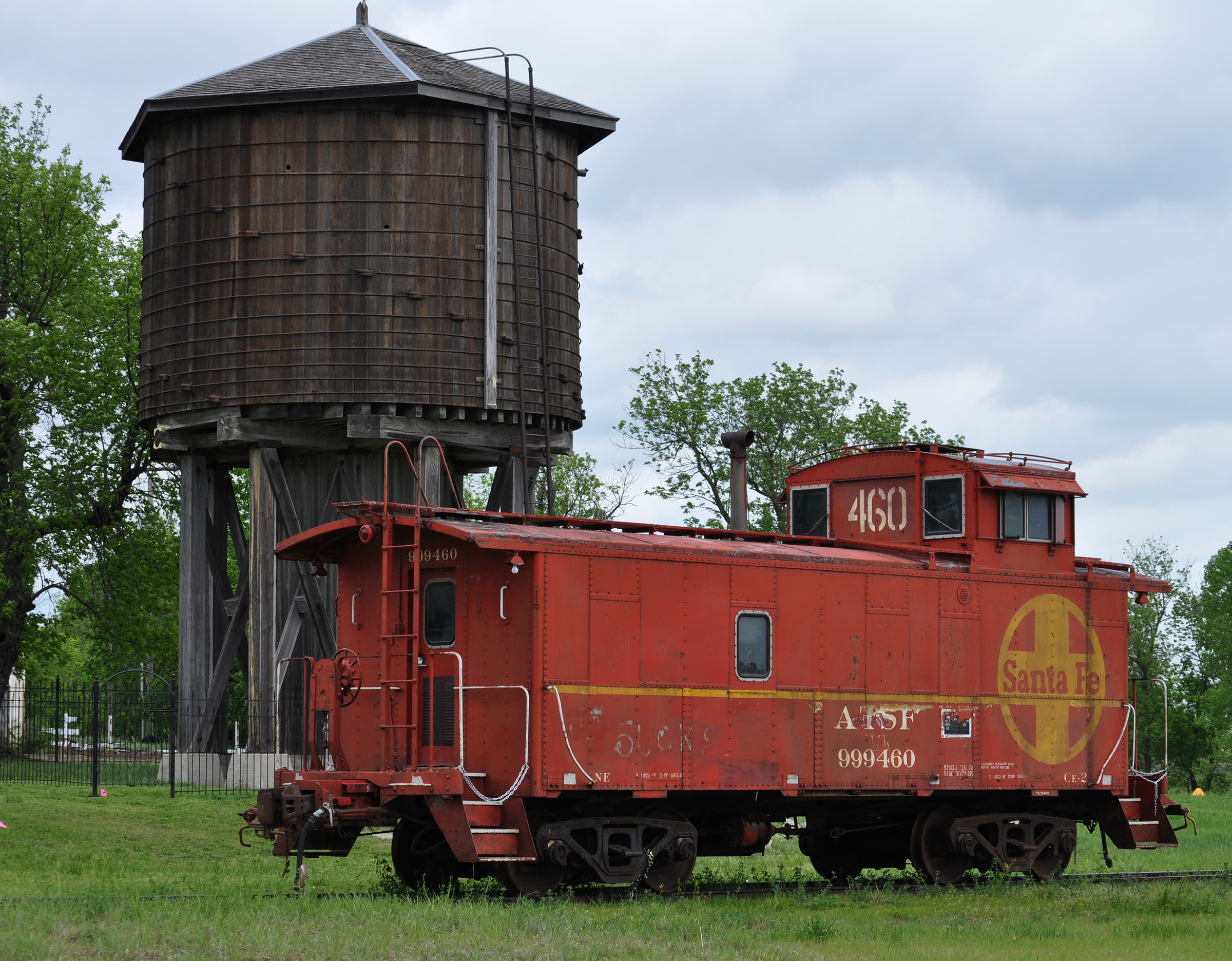 Historic Beaumont, Kansas Water Tower and Frisco caboose